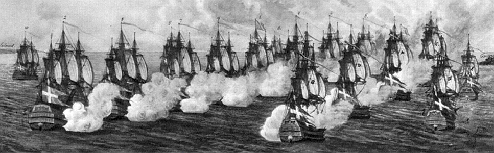 naval battle near Fehmarn, 1715 april 24th, engraving